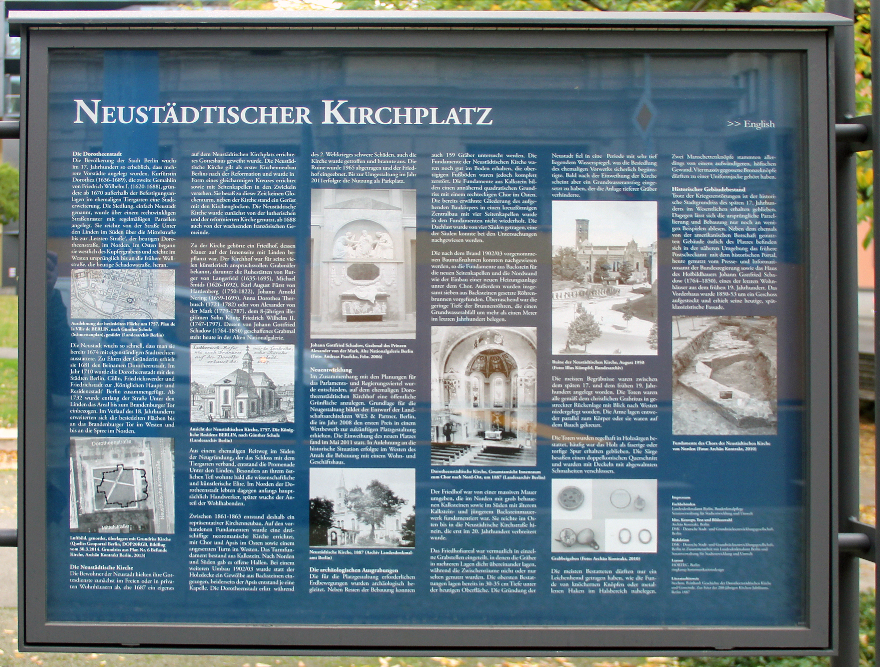 Memorial plaque, Neustädtischer Kirchplatz, Neustädtischer Kirchplatz, Berlin-Mitte, Deutschland